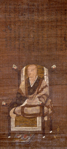 Jikaku Daishi, Chorakuji, Ota, kept at Gunma Prefectural Museum of History, Takasaki, Gunma, Japan 絹本著色 慈覚大師像